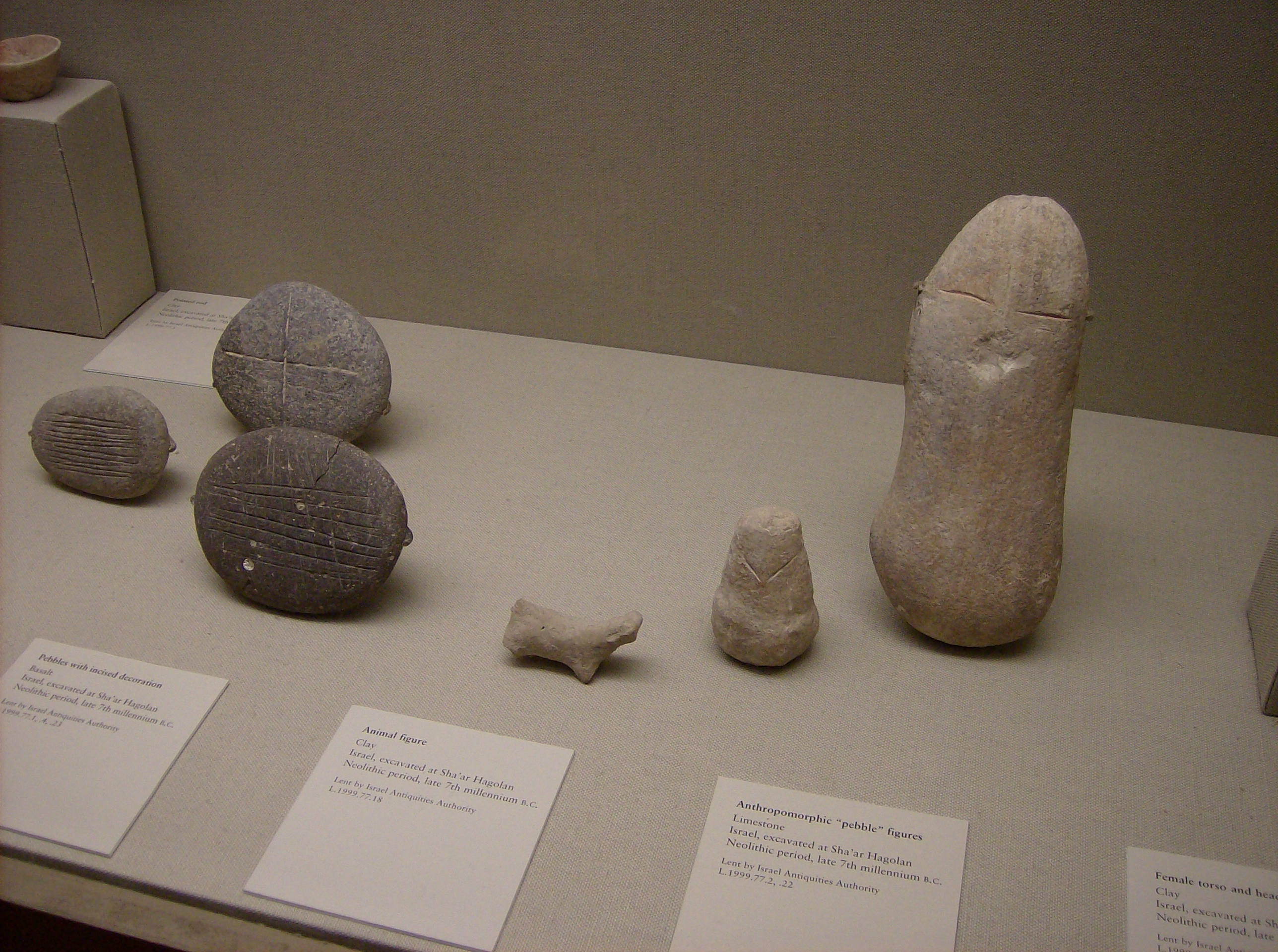 Self Shot at the Metropolitan Museum of Art in NYC